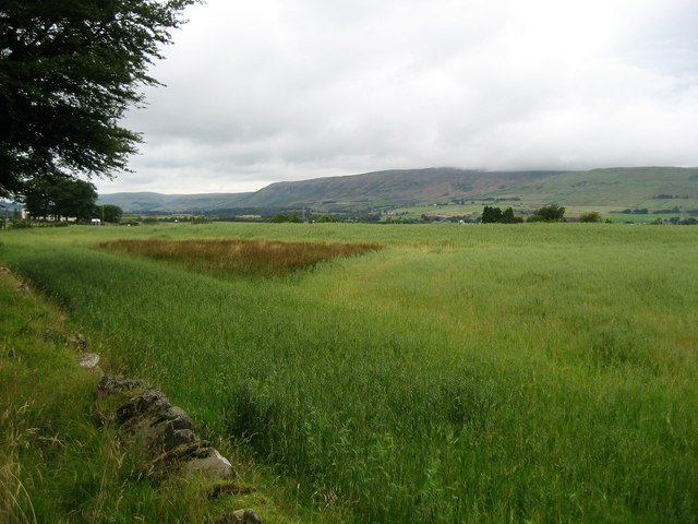 View of the Campsie Fells A fine viewpoint of the Campsies from just above the towpath that follows the Forth and Clyde Canal at Harestanes, Kirkintilloch.